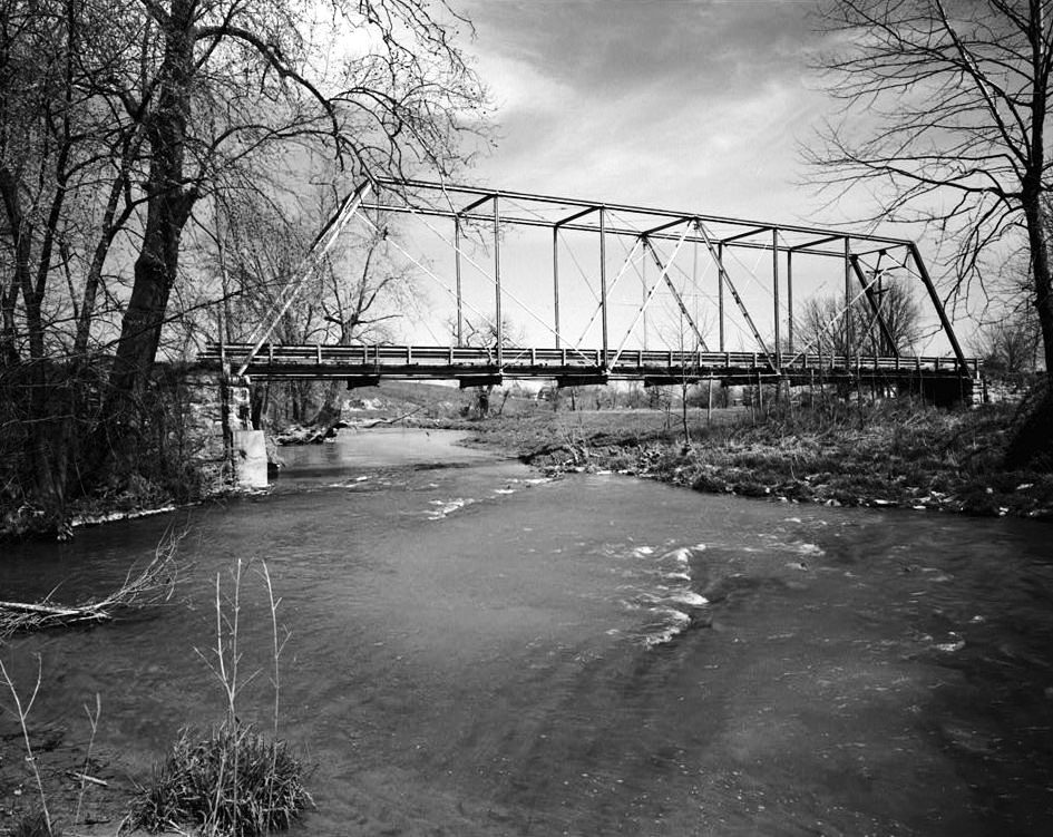 Linville Creek Bridge, Spanning Linville Creek at State Route 1421, Broadway vicinity (Rockingham County, Virginia) cropped and exposure adjusted This image or media file contains material based on a work of a National Park Service employee, created as part of that person's official duties. As a work of the U.S. federal government, such work is in the public domain. Creator: U.S. Department of the Interior, National Park Service, Historic American Engineering Record. Survey number HAER VA,83-BROADW.V,1-4 Source: U.S. Library of Congress, Prints and Photographs Division, "Built in America" Collection. Copyright: "The records in HABS/HAER were created for the U.S. Government and are considered to be in the public domain." [1] Object location38° 36′ 22″ N, 78° 48′ 13″ W